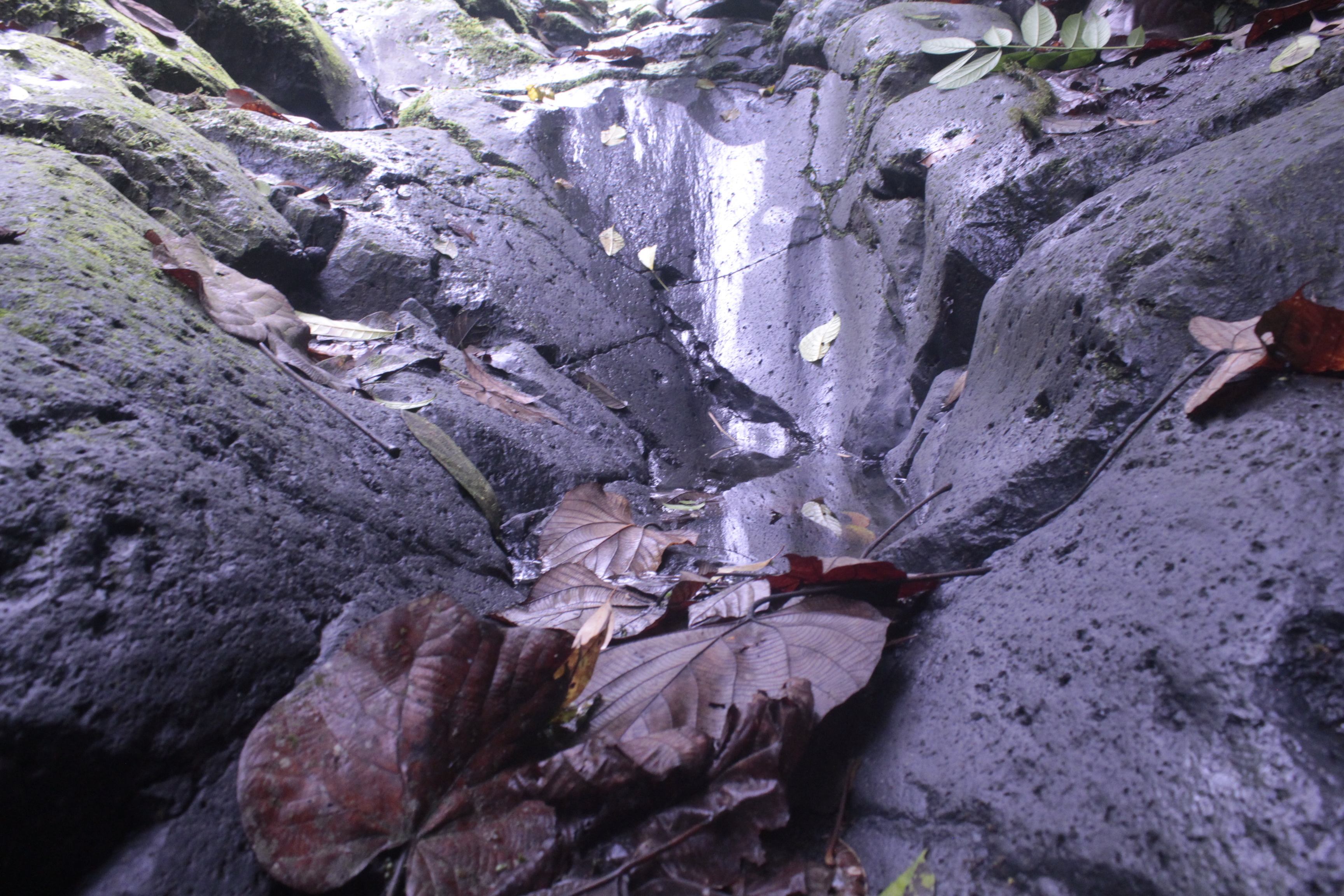 A view of the mount Cameroon tropical dark rocks during the early hours of the morning in the mount Cameroon national park.